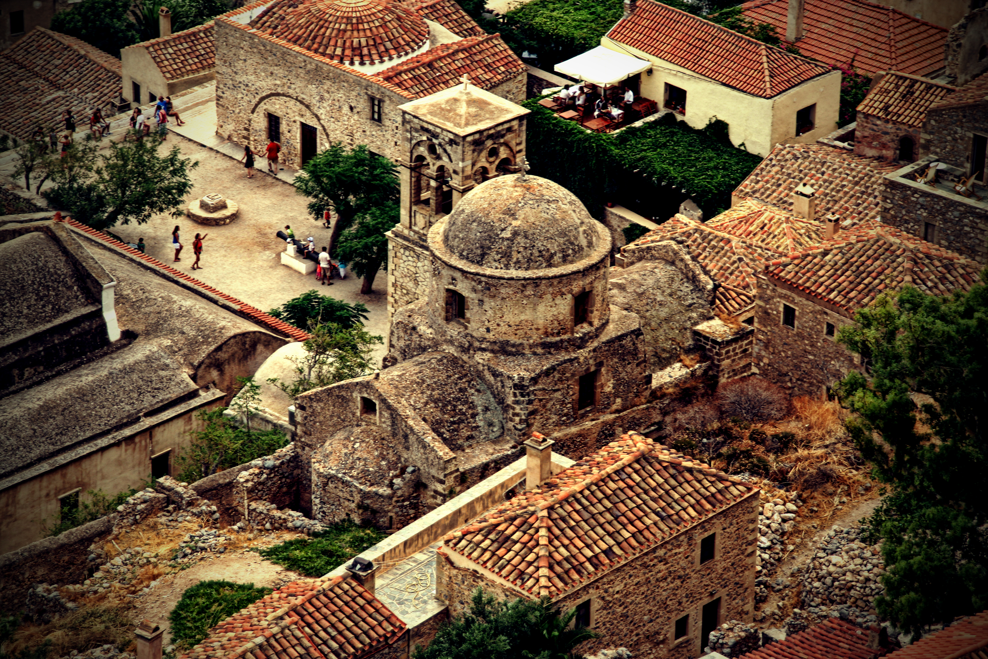 monemvasia